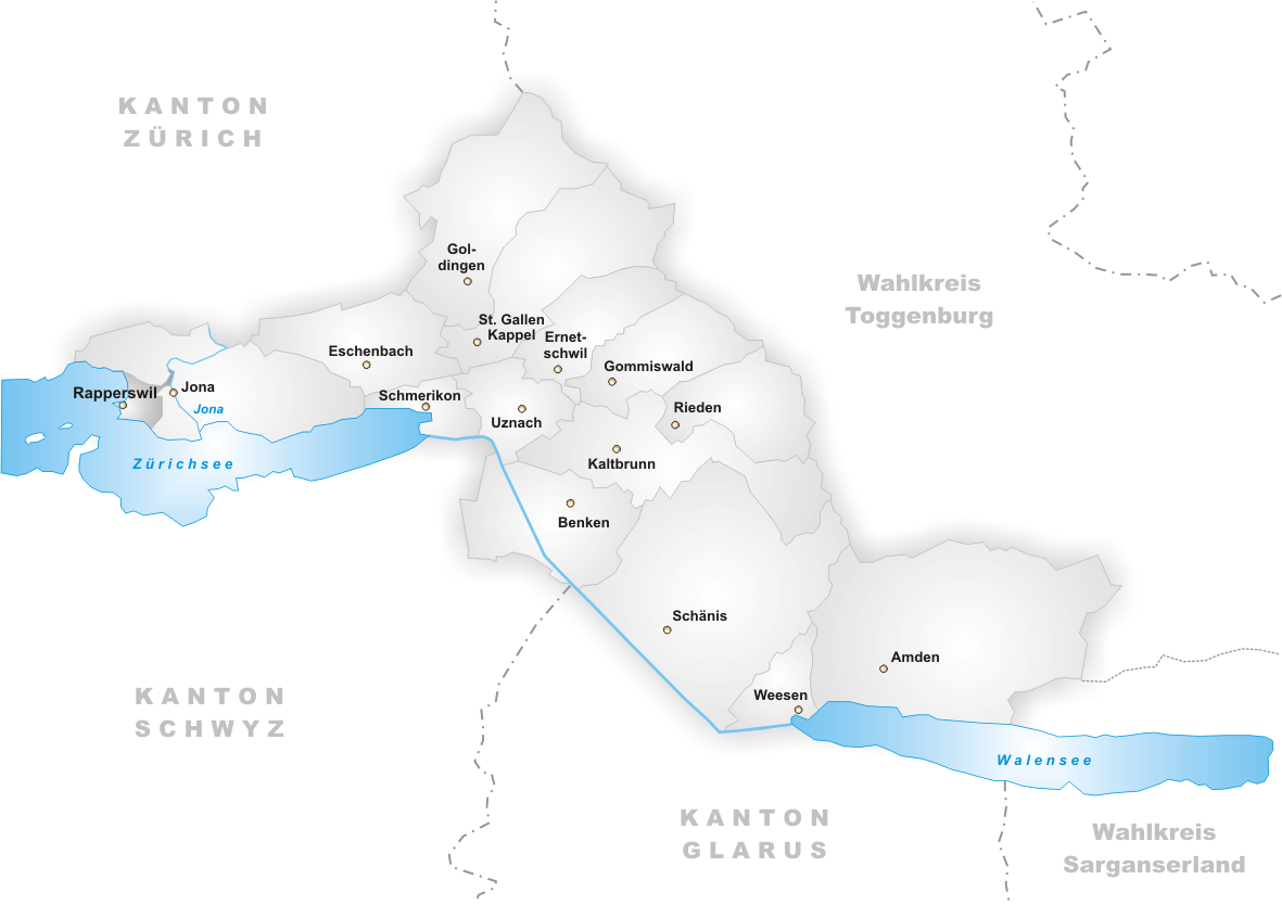 Municipality Rapperswil